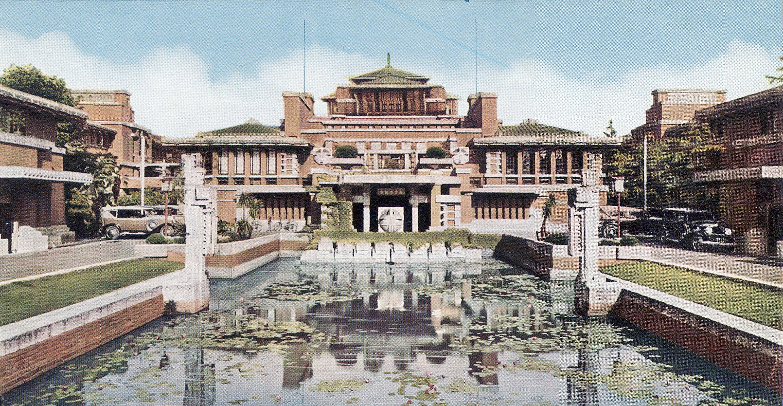 Imperial Hotel by Frank Lloyd Wright